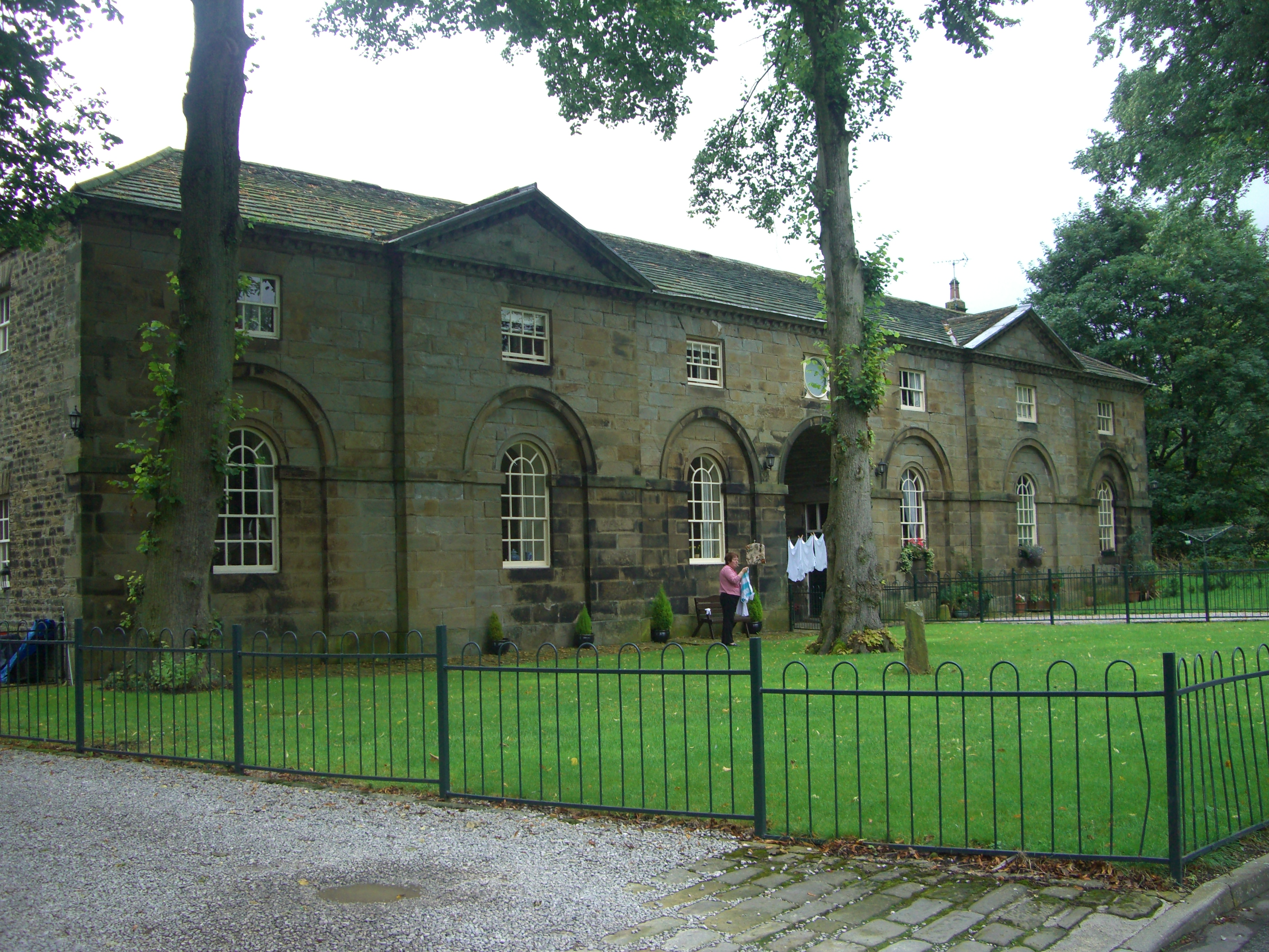 The stables at Norton Hall in Norton, a suburb of the City of Sheffield in England